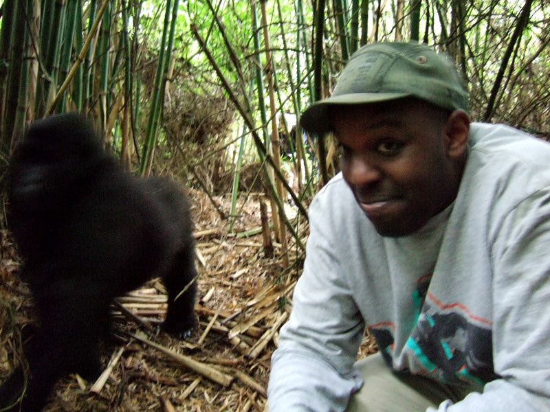 Taken of Shadrach with a gorilla from the Sabyinyo group at the Volcanoes National Park 13/08/06